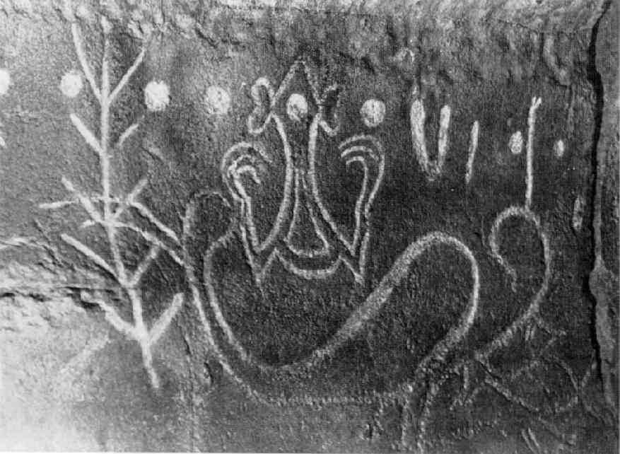 Petroglyphs on the wall of cave Ana o Keke, Easter Island, which resemble rongorongo.